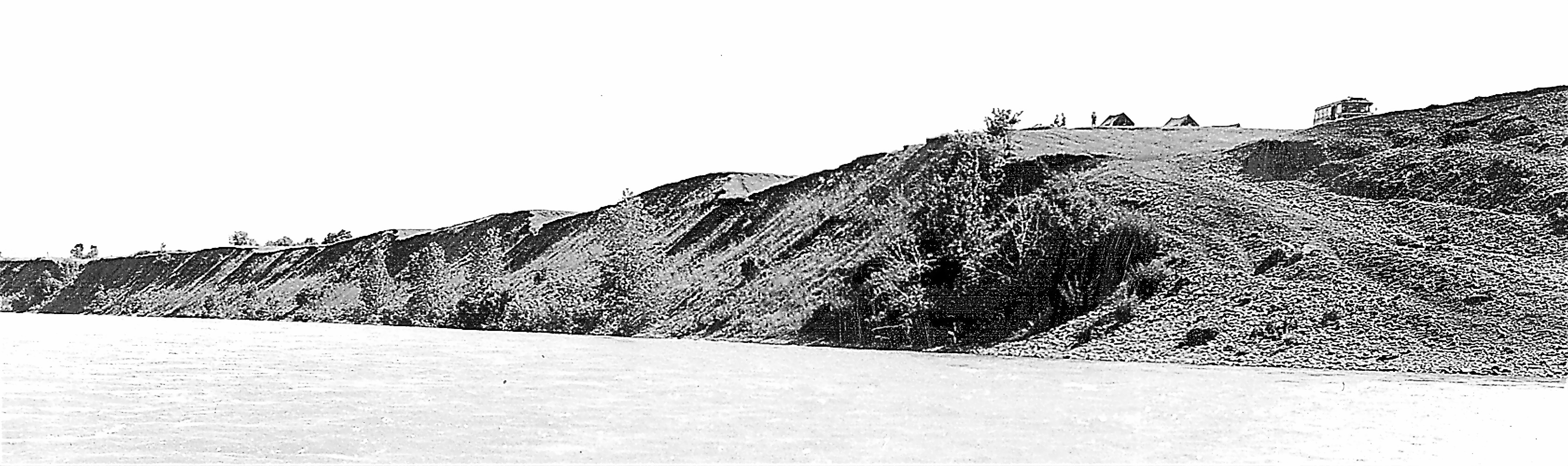 Giant current ripples on the left bank of Katun River, Altai